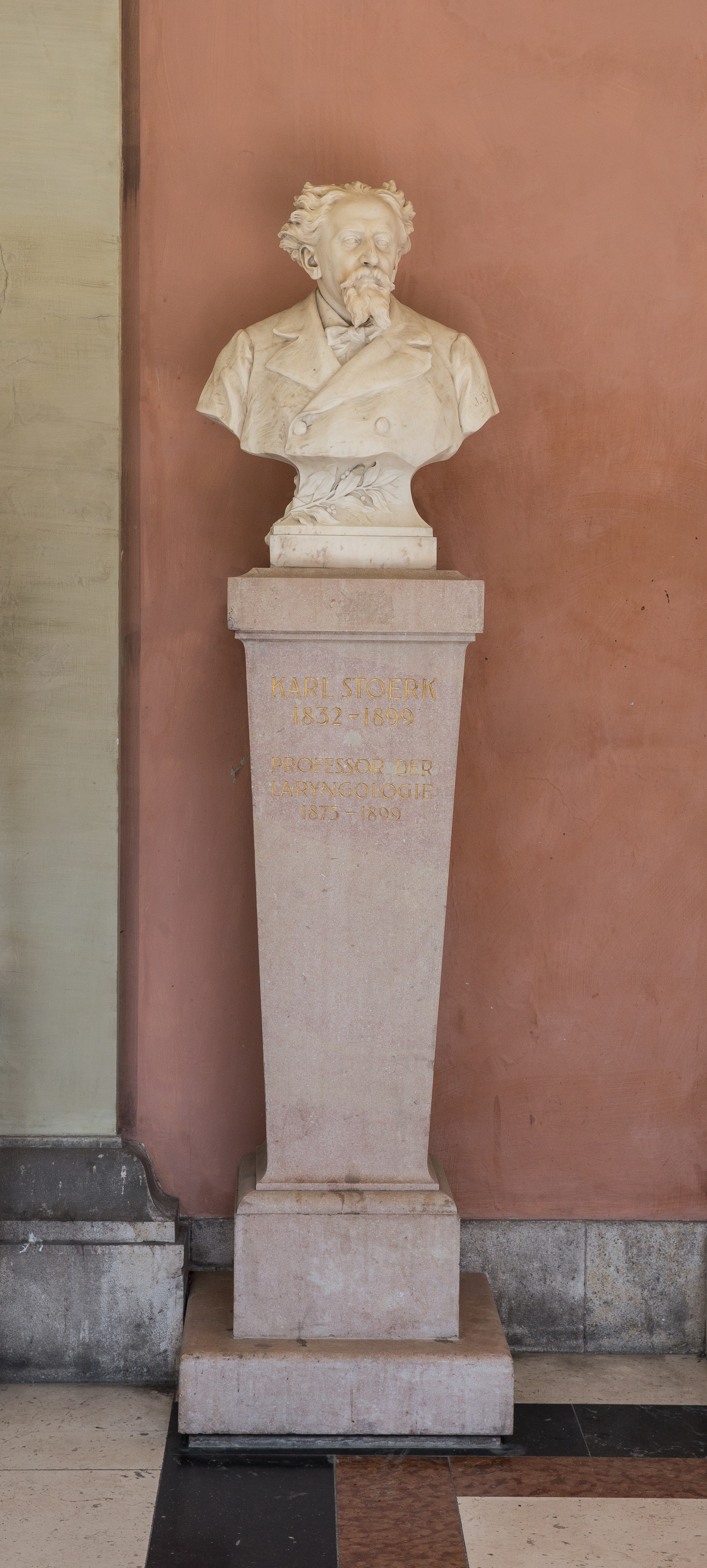 Karl Stoerk (1832-1899), physician, bust (marble) in the Arkadenhof of the University of Vienna, (Maisel# 129). Artist: Johannes Benk (1844-1914), unveiled 1907